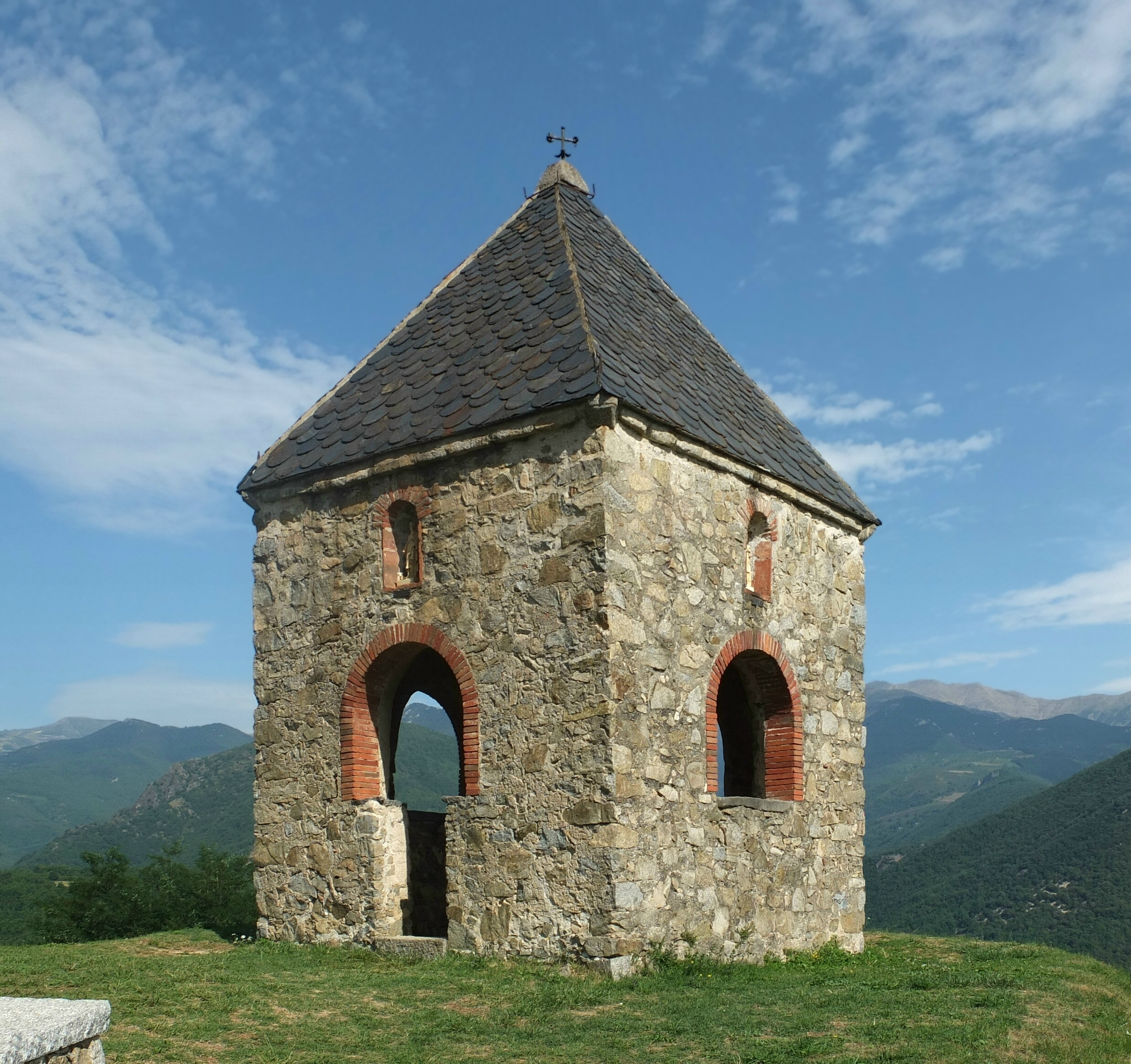 Conjurador Conjurador in Serralongue, France. In former centuries the people gathered in such a Conjurador to ward off bad weather. The four statuettes of saints in the niches at each side were supposed to support their defence.